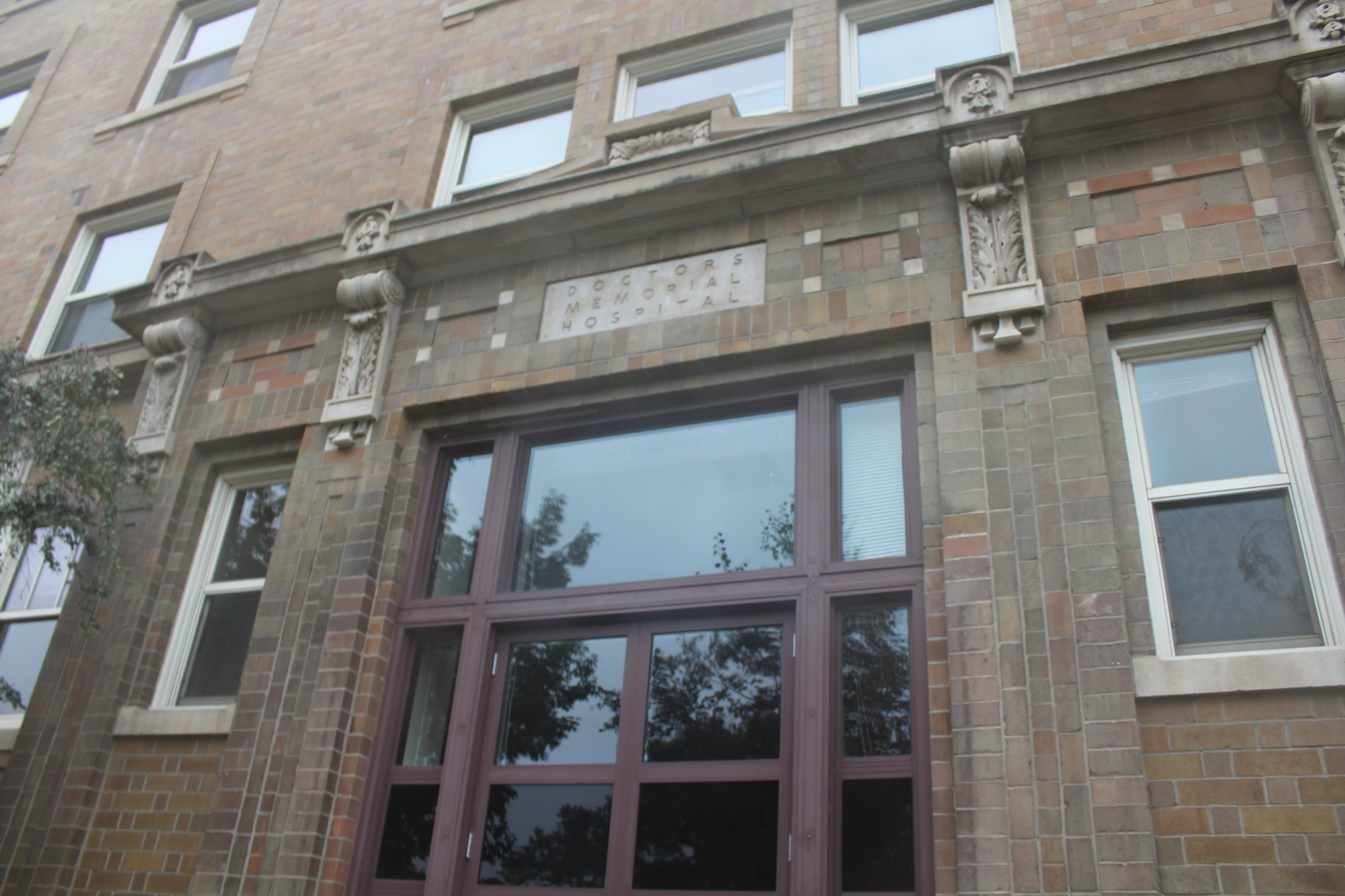 Former entrance to Eitel Hospital, 1367 Willow Street, Minneapolis